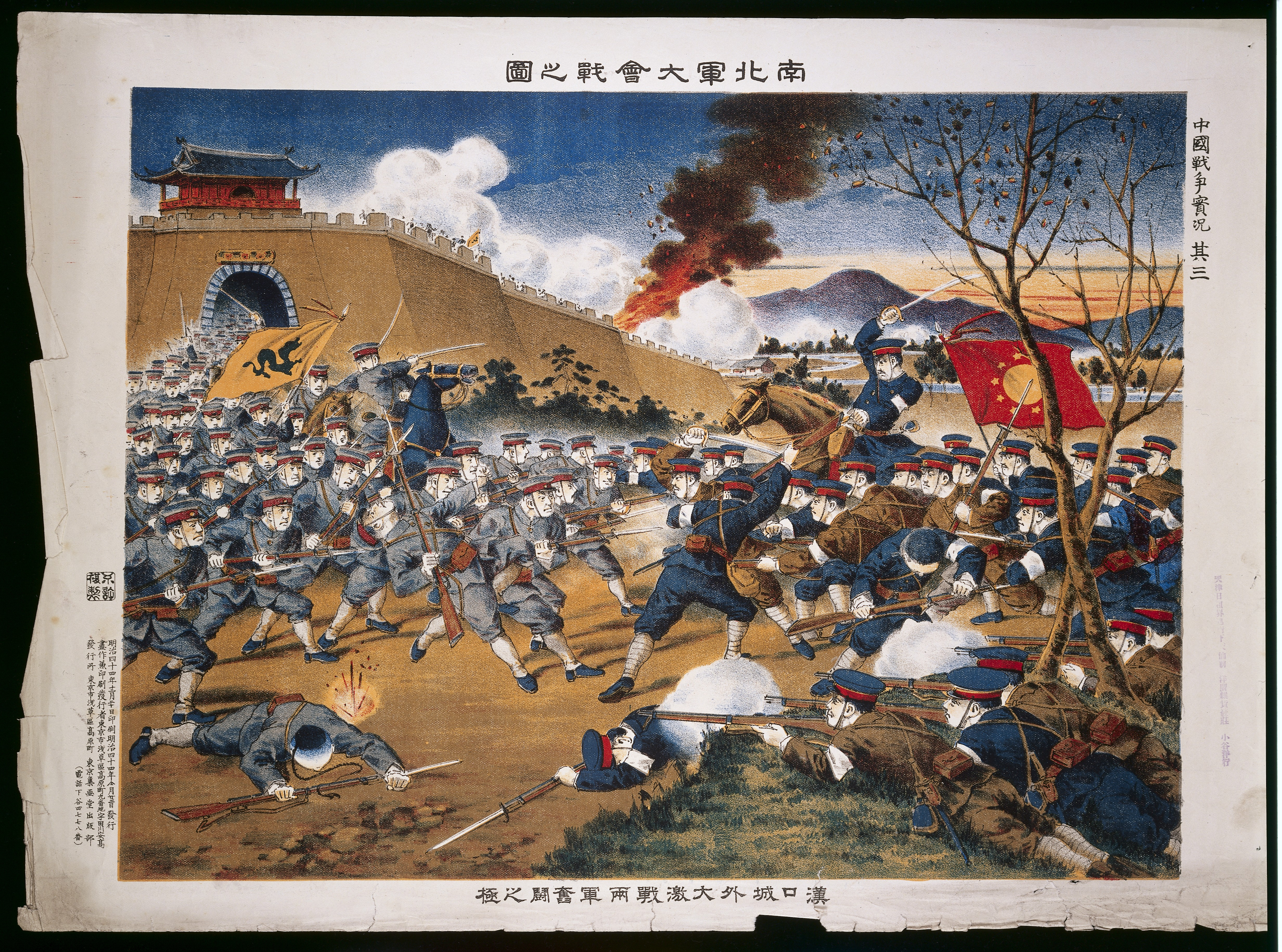 An episode in the revolutionary war in China, 1911: a pitched battle between the imperial army (left) and the revolutionary army (right), outside the walls of a fortified city. Iconographic Collections Keywords: Revolution; Chinese Revolution; Military History; Fighting; China; Battles; T. Miyano; Xinhai Revolution; Manchu (Qing) Dynasty